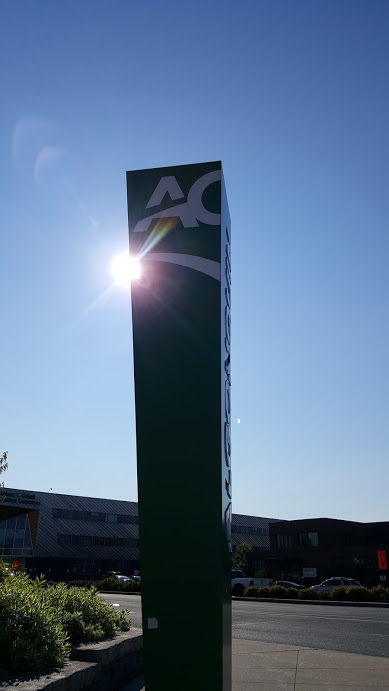 Sign upon entry to Woodroffe Campus